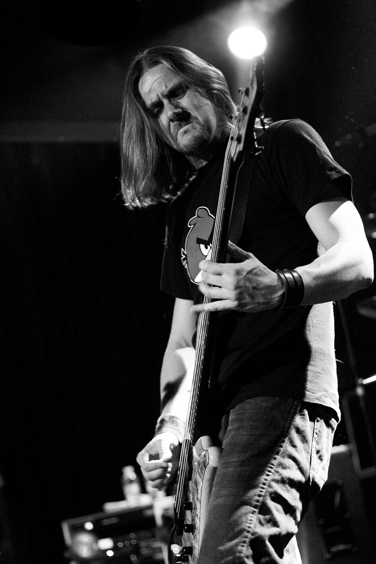 Mariusz Duda of Polish rock band Riverside